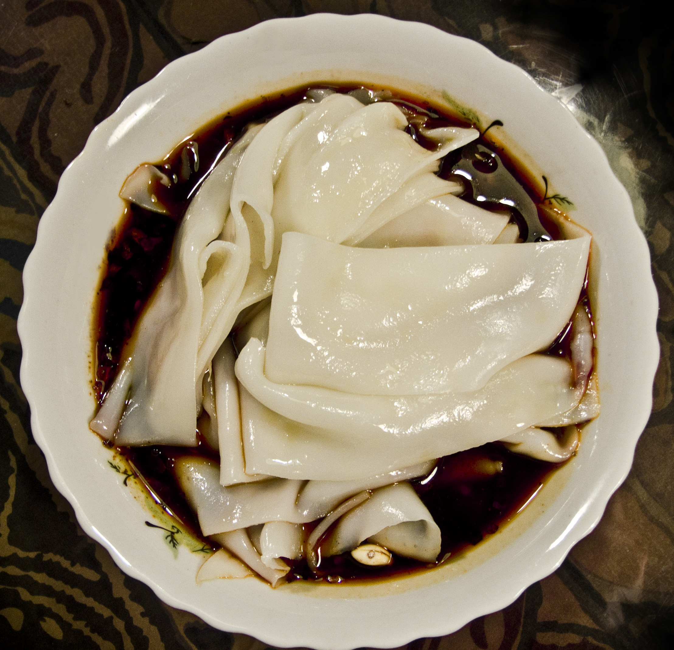 Mian-pi(rice noodle),the most famous local snack of Hanzhong,Shannxi,China.